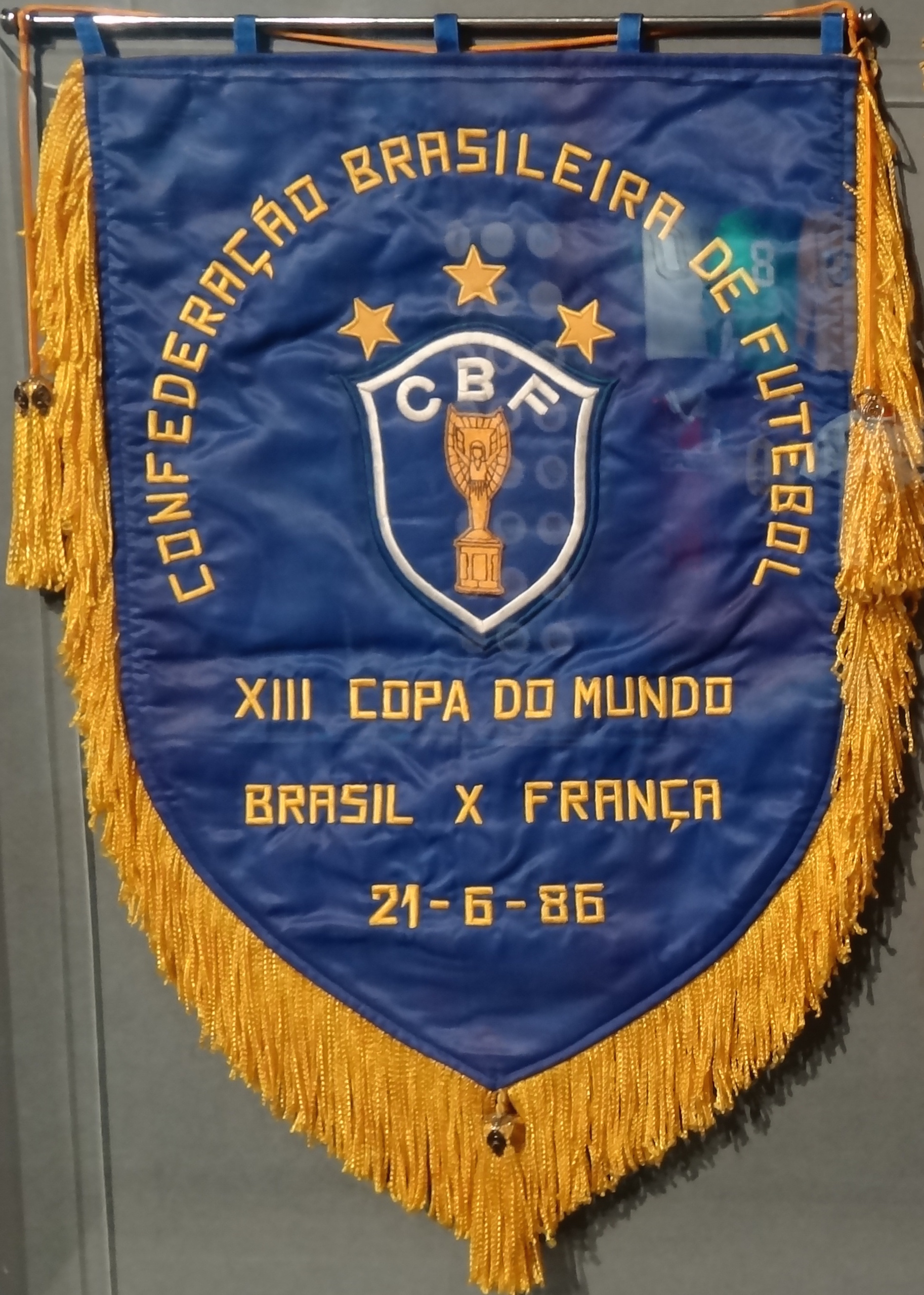 1986 World Cup wimpel, Brazil - France, musée national du sport (Nice)